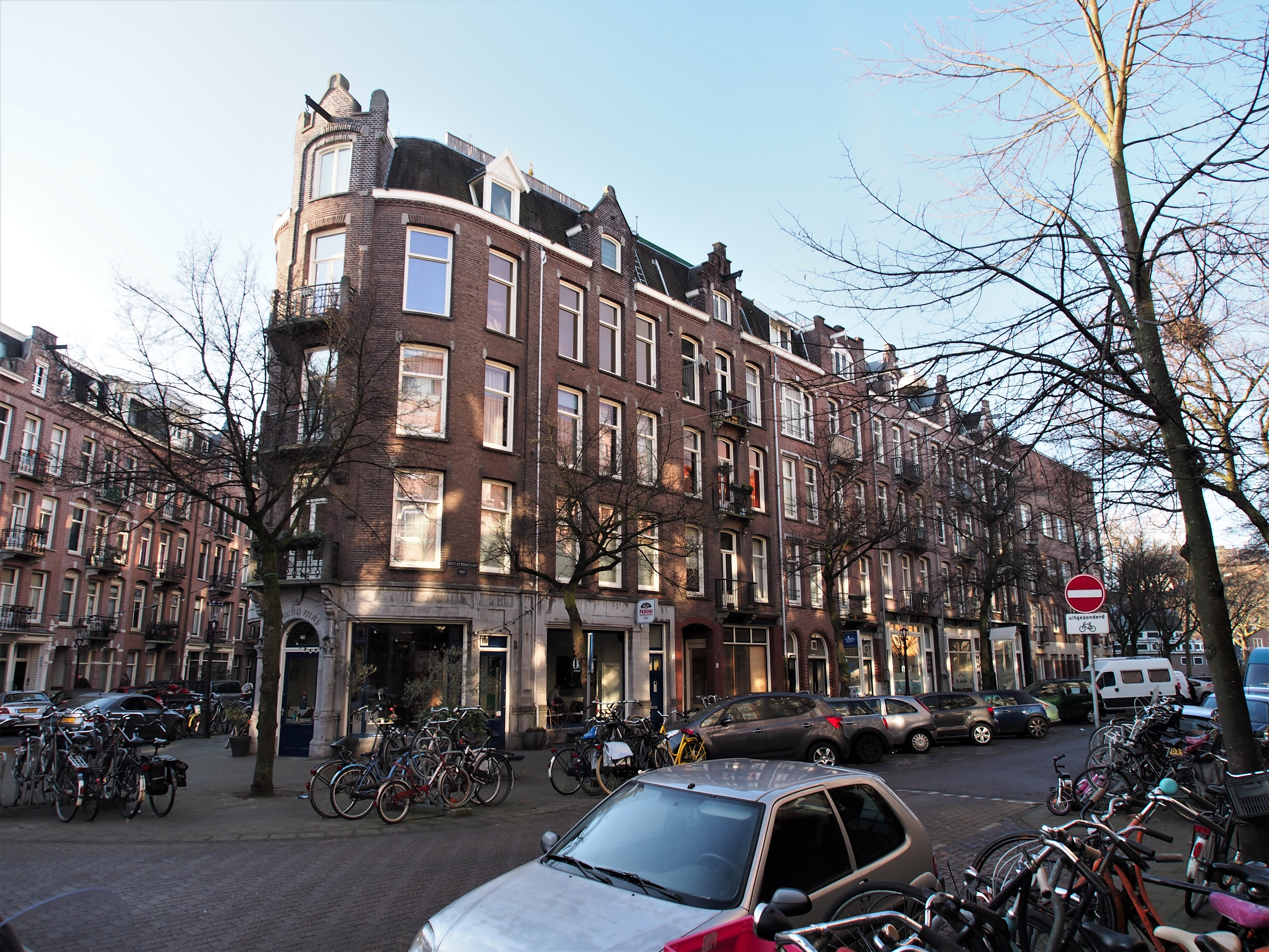 Photographed in Amsterdam.